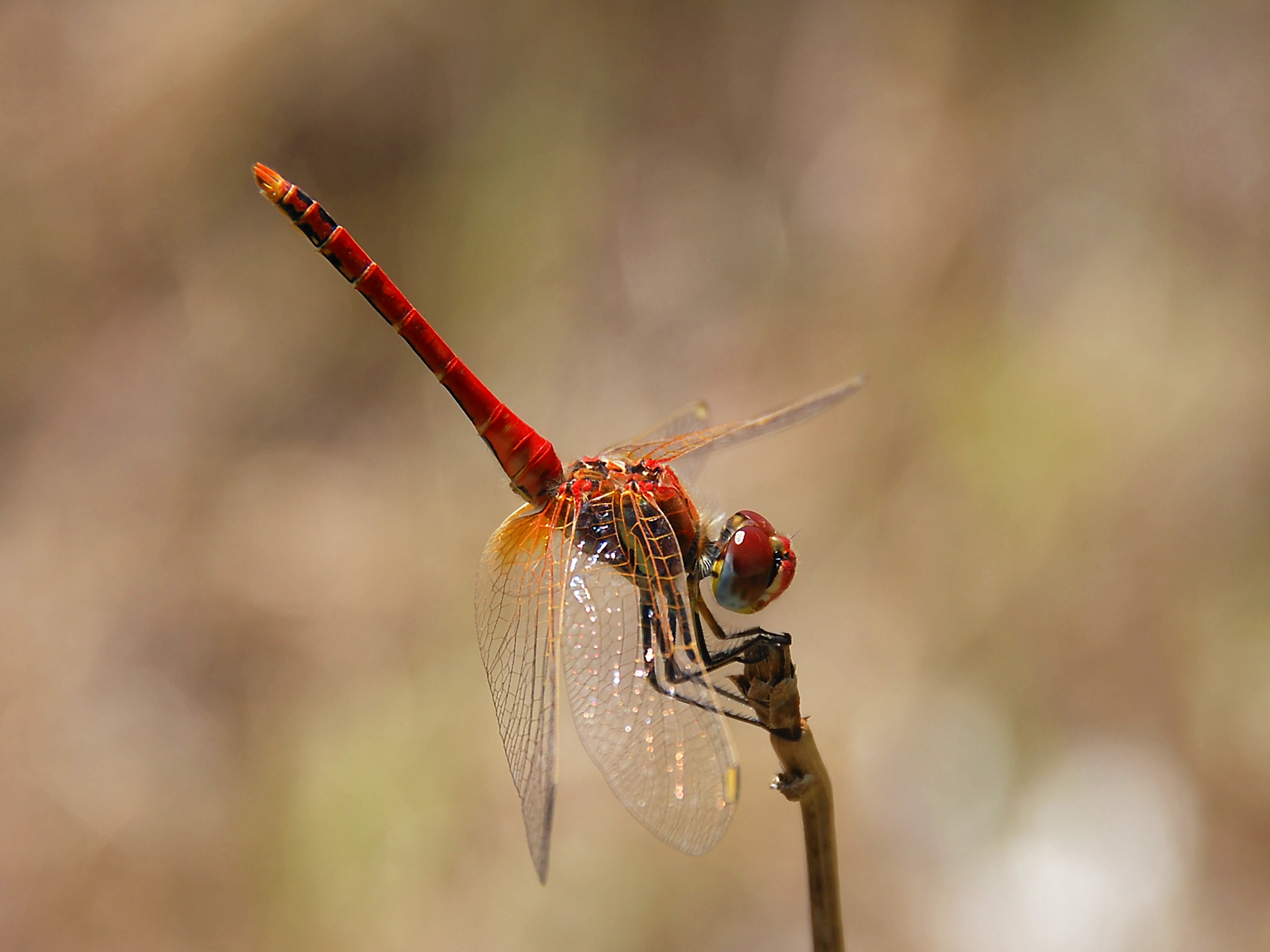 Red-veined darter dragonfly (Sympetrum fonscolombii)